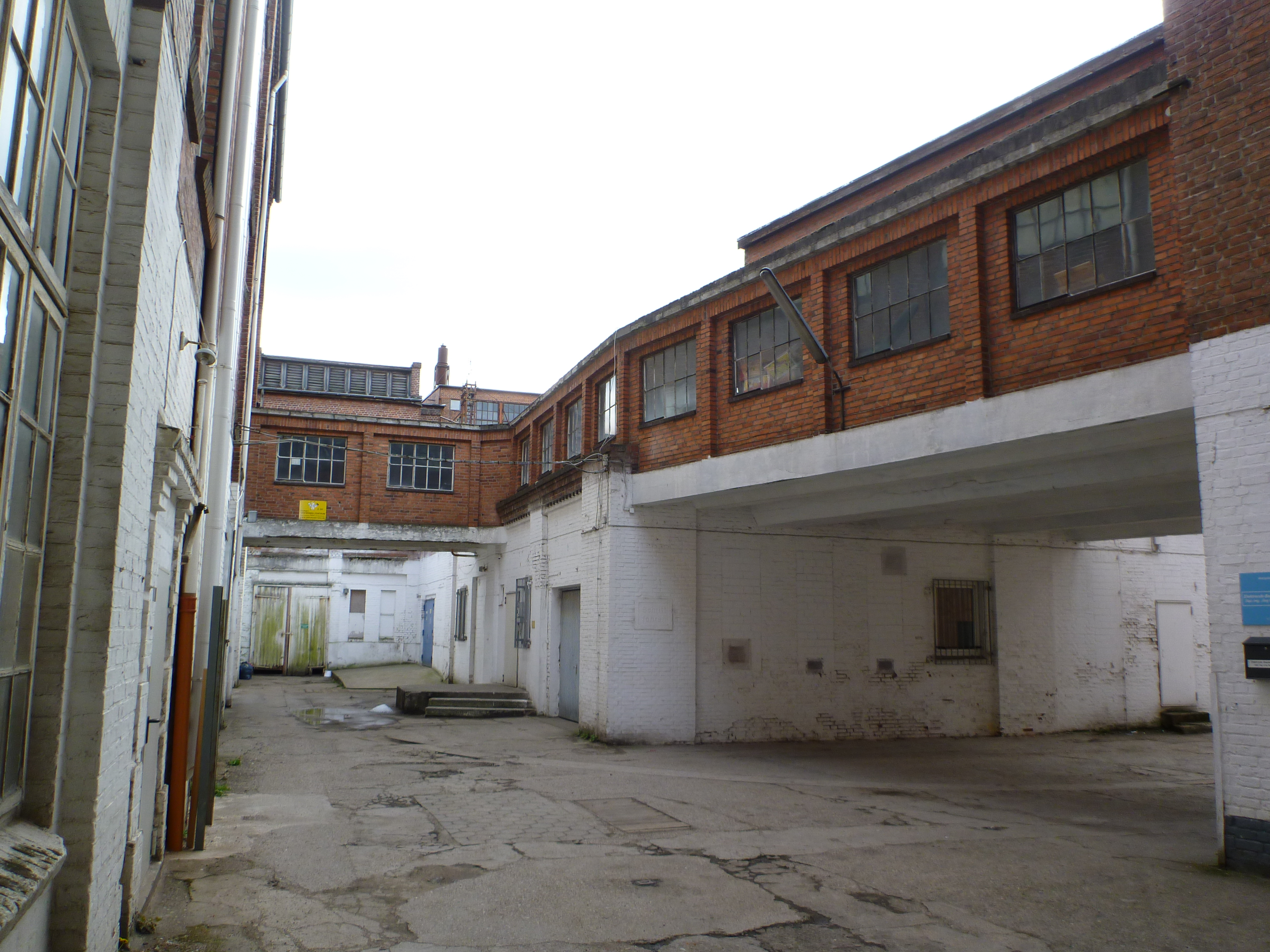 Former leather company Emil Köster at Wrangelstraße 34-34a, Cultural heritage monuments in Neumünster